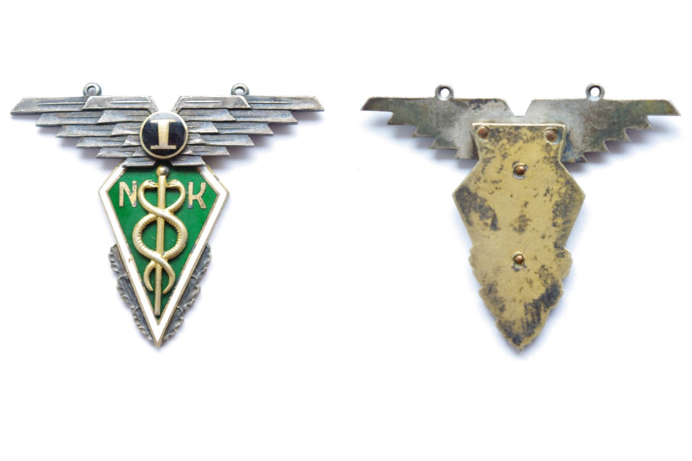 Old Estonian School Graduation Badge — NK (City of Narva Business School), I issueEesti: Vana eesti kooli lõpumärk — Narva Kommertskool, I lend